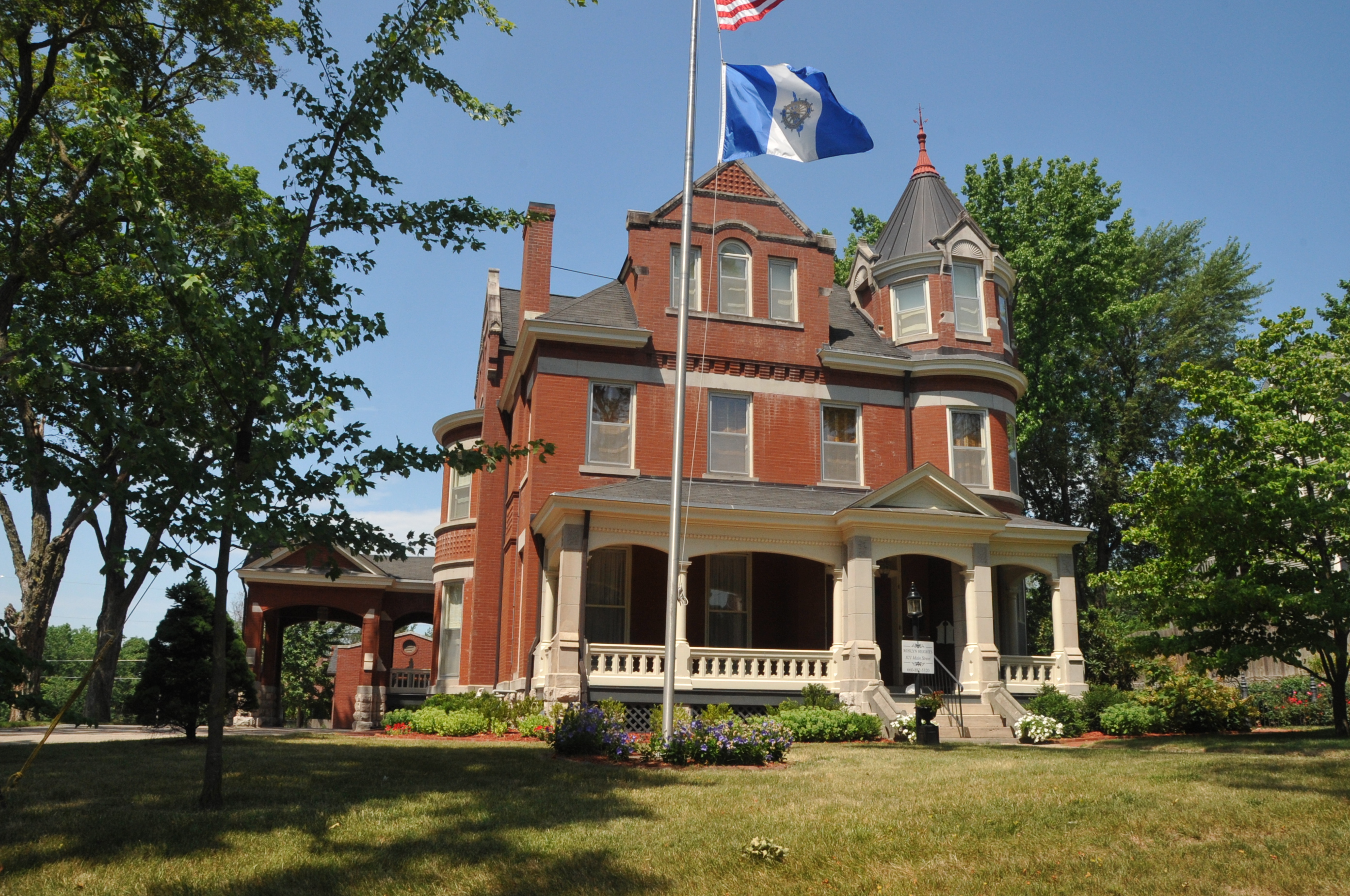 BUILT IN 1895, VICTORIAN ROMANESQUE; MRS JOHNSON WAS THE SISTER OF THE GOVERNOR OF MISSOURI WHO WAS FREQUENTLY ENTERTAINED HERE. HOUSE IS NOW OWNED BY THE DAR